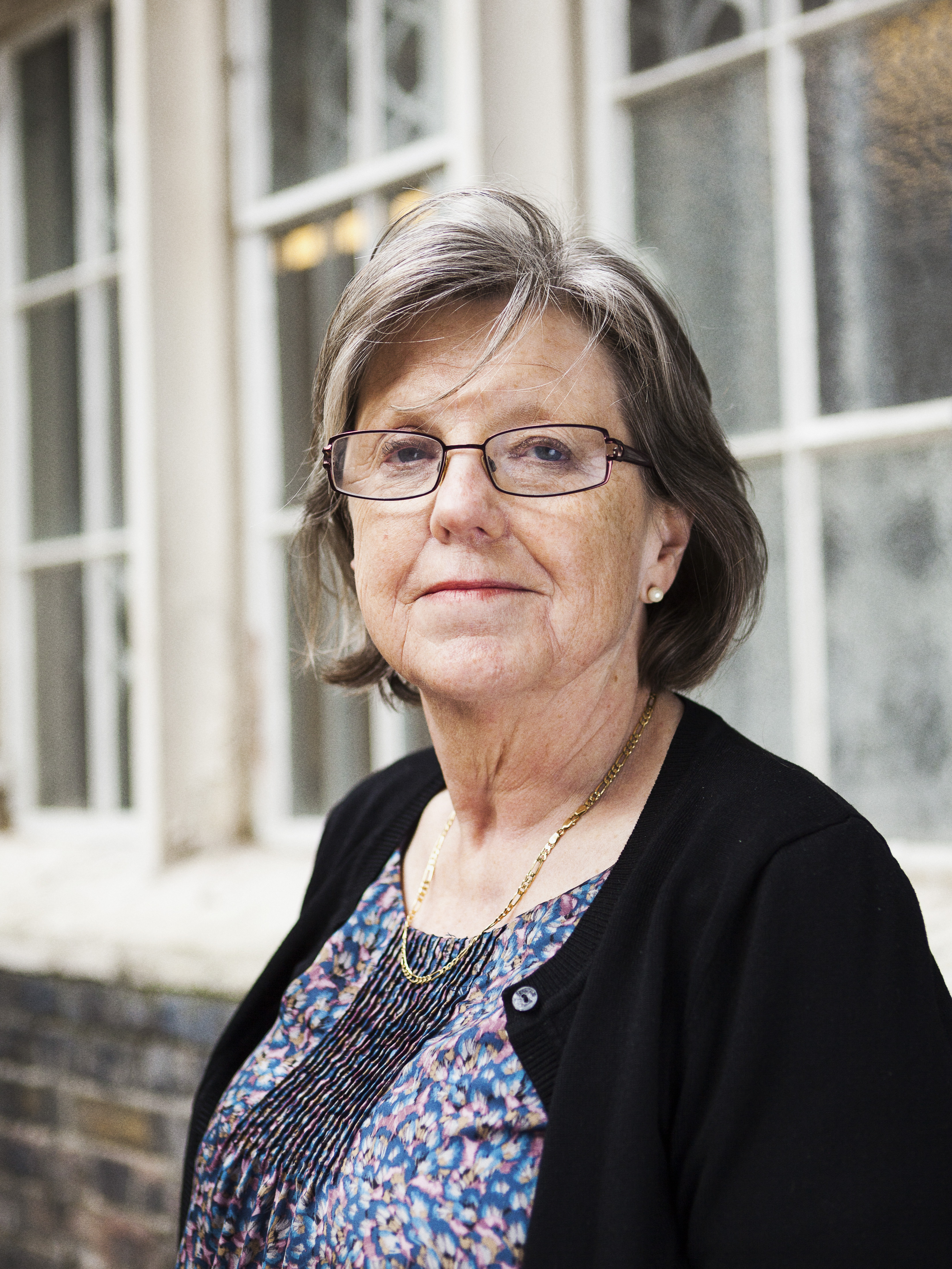 Georgina Mace, hoogleraar biodiversiteit en ecosystemen, University College London (Verenigd Koninkrijk), krijgt de Dr. A.H. Heinekenprijs voor de Milieuwetenschappen 2016 voor het leggen van een wetenschappelijk basis onder wereldwijd gebruikte lijsten van bedreigde soorten en het stellen van prioriteiten voor natuurbehoud. Bij gebruik van de foto's is naamsvermelding van de fotograaf verplicht: Jussi Puikkonen/KNAW. = Georgina Mace, Professor of Biodiversity and Ecosystems at University College London (UK), will receive the 2016 Dr A.H. Heineken Prize for Environmental Sciences for developing scientific criteria for the world’s most comprehensive list of threatened species and for establishing priorities for nature conservation. Re-use of these photographs must be accompanied by proper attribution: Jussi Puikkonen/KNAW